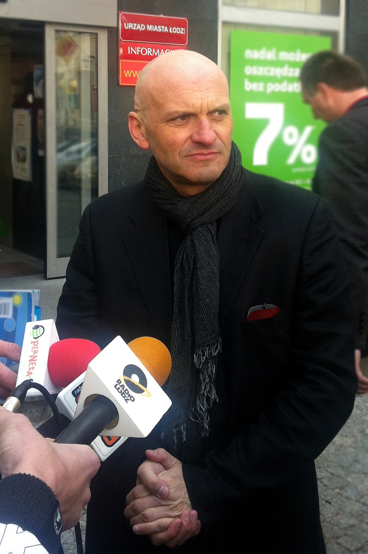 Radosław Stępień, Vice President of Lodz, at a press conference on the cycling tracks in Lodz